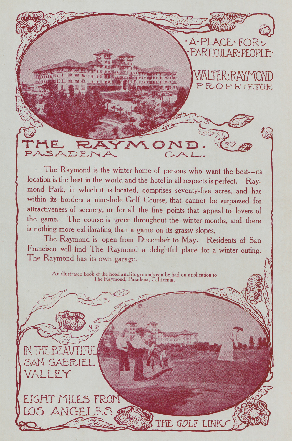 The Raymond Hotel, Pasadena, CA advertisement 1911